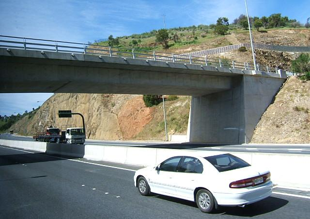 Mt Osmond Interchange, Brown Hill Creek, Adelaide, South Australia